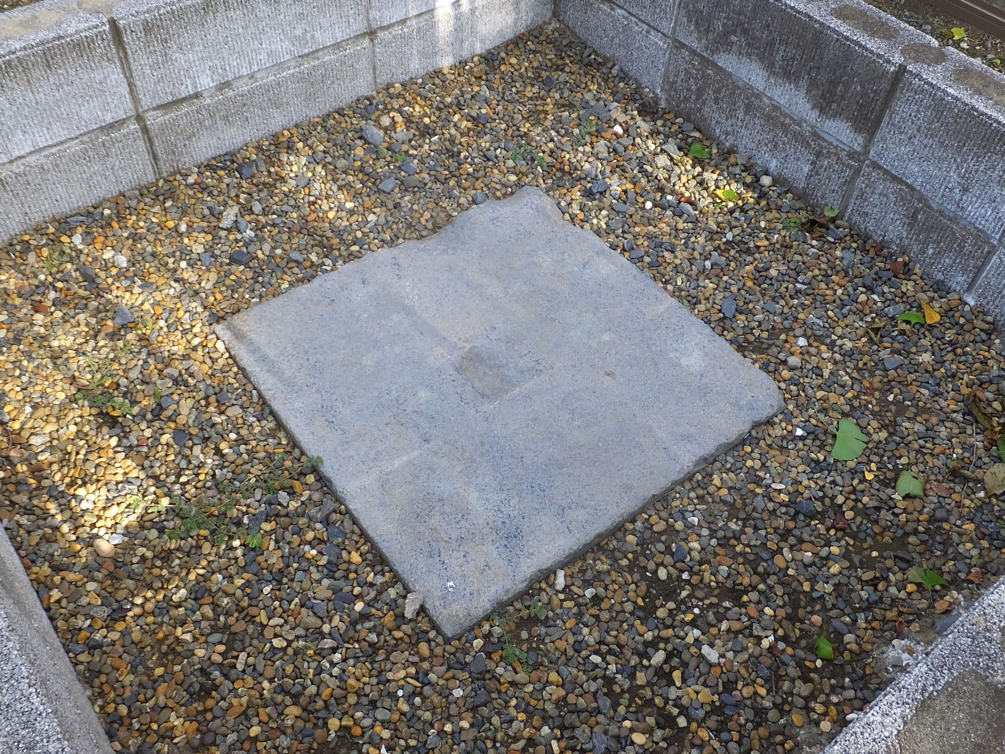 Benchmark at Enpuku-ji temple in Chōshi, Chiba Prefecture